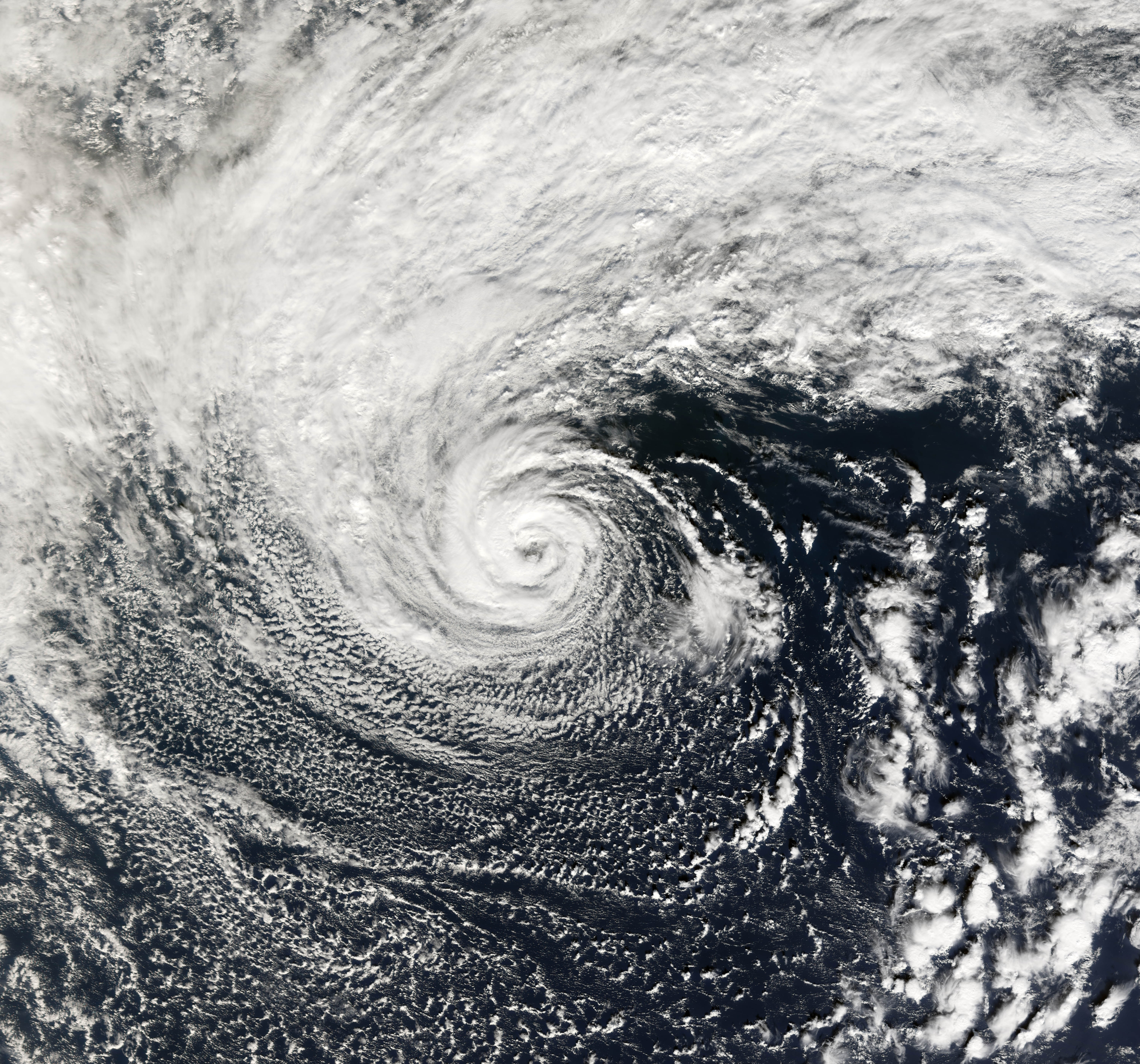 Tropical storms, as their name suggest, tend to form in the tropics. However, from time to time similar looking storms can form at higher latitudes. Extratropical storms have cold rather than warm cores and usually form their characteristic spiral shape when two fronts collide. More rare are polar lows, a similar storm system which can form in the Arctic. On very rare occasions, however, there are peculiar hybrid storms with some of the characteristics of a tropical storm and some characteristics of an extratropical storm. The terminology to describe them becomes potentially confusing. One name given to such storms is subtropical storms. This photo-like image of a subtropical storm was acquired by the Moderate Resolution Imaging Spectroradiometer (MODIS) on the Terra satellite on November 1, 2006. Located 900 miles off the coast of Oregon in the northwestern Pacific, this storm system looks like a hurricane, but it is located far from any of the typical hurricane formation areas. The storm originally formed from a cold-cored extratropical storm, but after sending two days over anomalously warm water, it developed a warm center and the hurricane characteristics of a cloud-free eye and an eyewall of thunderstorms circling the eye. Though the storm was strong enough to be named had it formed in one of the hurricane sectors, it is outside the regions which hurricane monitoring organizations administer, so the authority to give it a full name is not well defined. As of November 2, 2006, the Central Pacific Hurricane Center in Honolulu had not issued any information on the storm nor even applied it with a name. It was known merely as Storm 91C by the U.S. Navy.